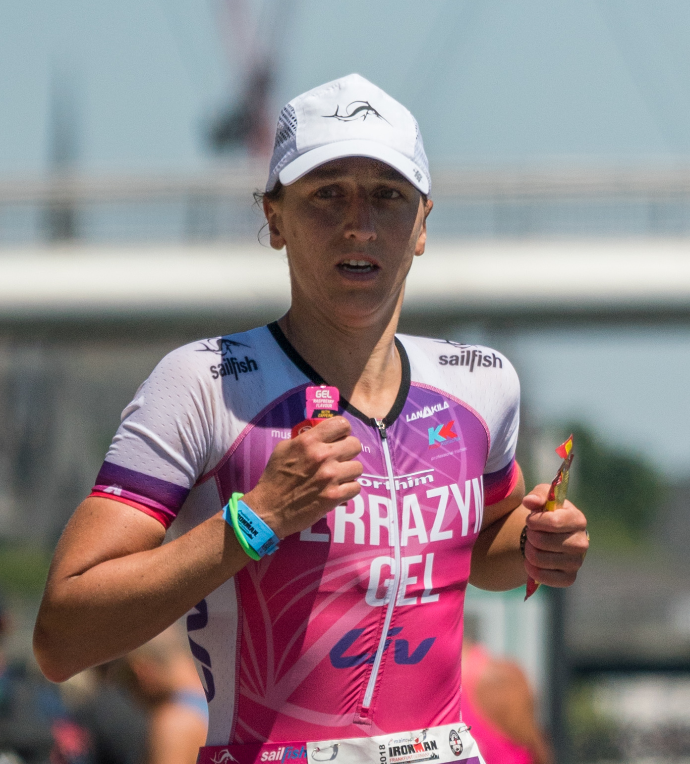 Fifth female Katja Konschak at the 2018 Ironman European Championship in Frankfurt am Main (Germany).